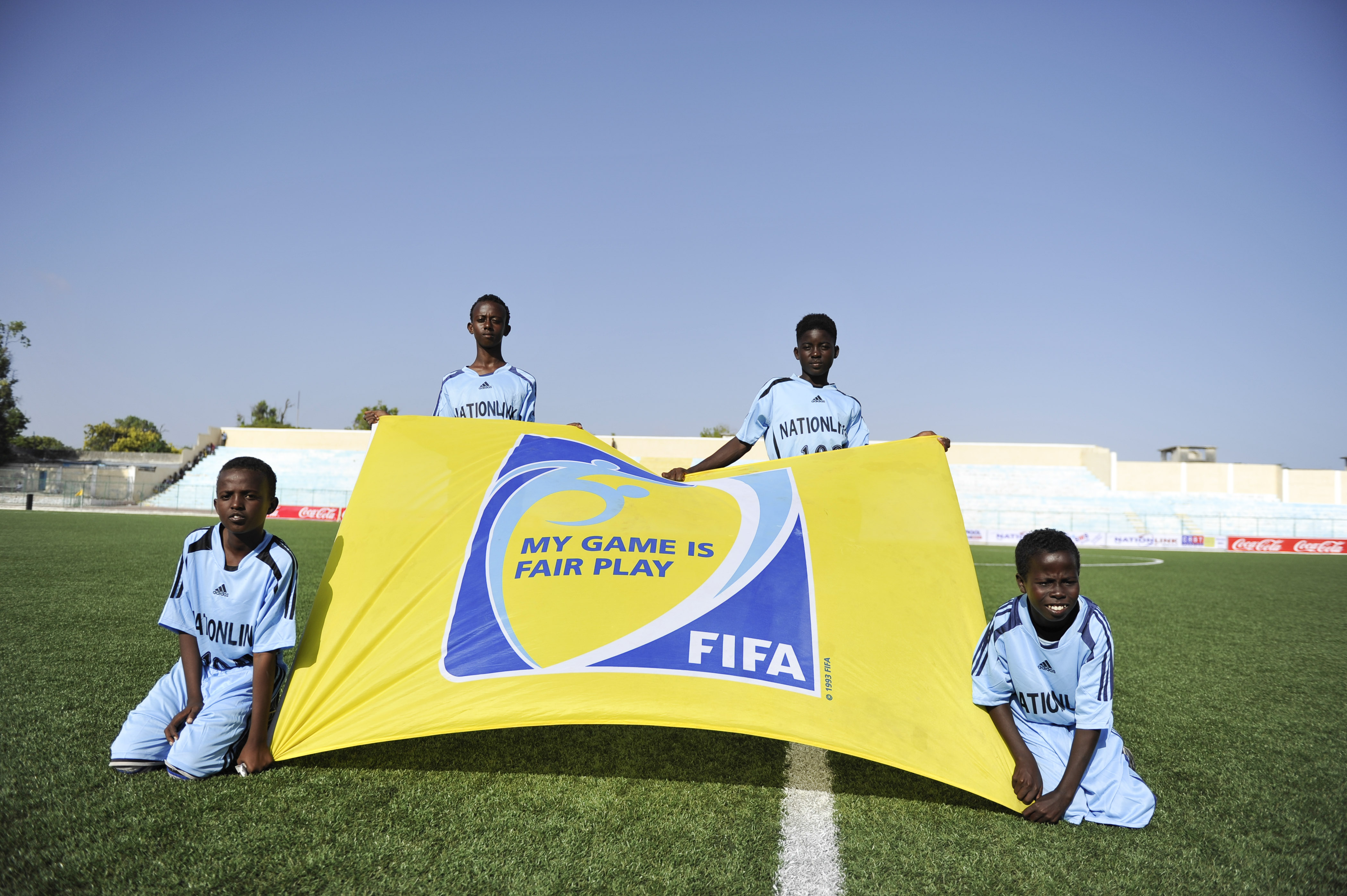 Ball boys hold a FIFA Fair Play banner before the opening match of the Somali premier league's new season at Banadir stadium, in Abdiaziz district of the capital Mogadishu on December 19, 2014. The match was between Elman FC and Horseed FC. This was during the opening Sports in Somalia is recovering attracting foreign players as a result of the relative peace and progress witnessed in the country. AMISOM Photo / Ilyas Ahmed